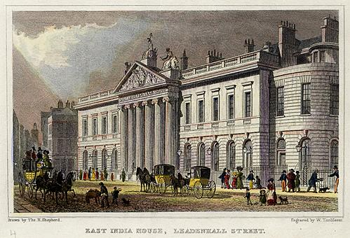 East India House Leadenhall Street, London, Drawing by Thomas Shepherd (1792 - 1864) Engraved by W. Tombleson c.1828.